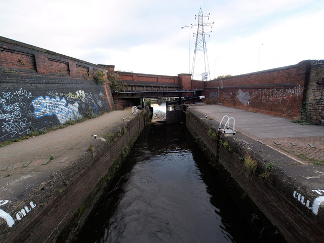 Sheffield and Tinsley Canal Heading towards the navigable River Don.